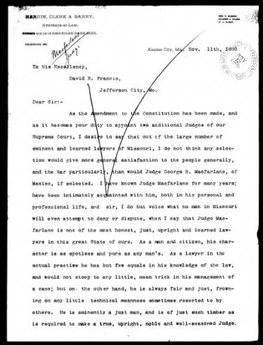 Appointments—Judges: Ben T. Hardin, Kansas City, Jackson County; recommends George Bennett MacFarlane for Supreme Court; Mexico, Audrain County